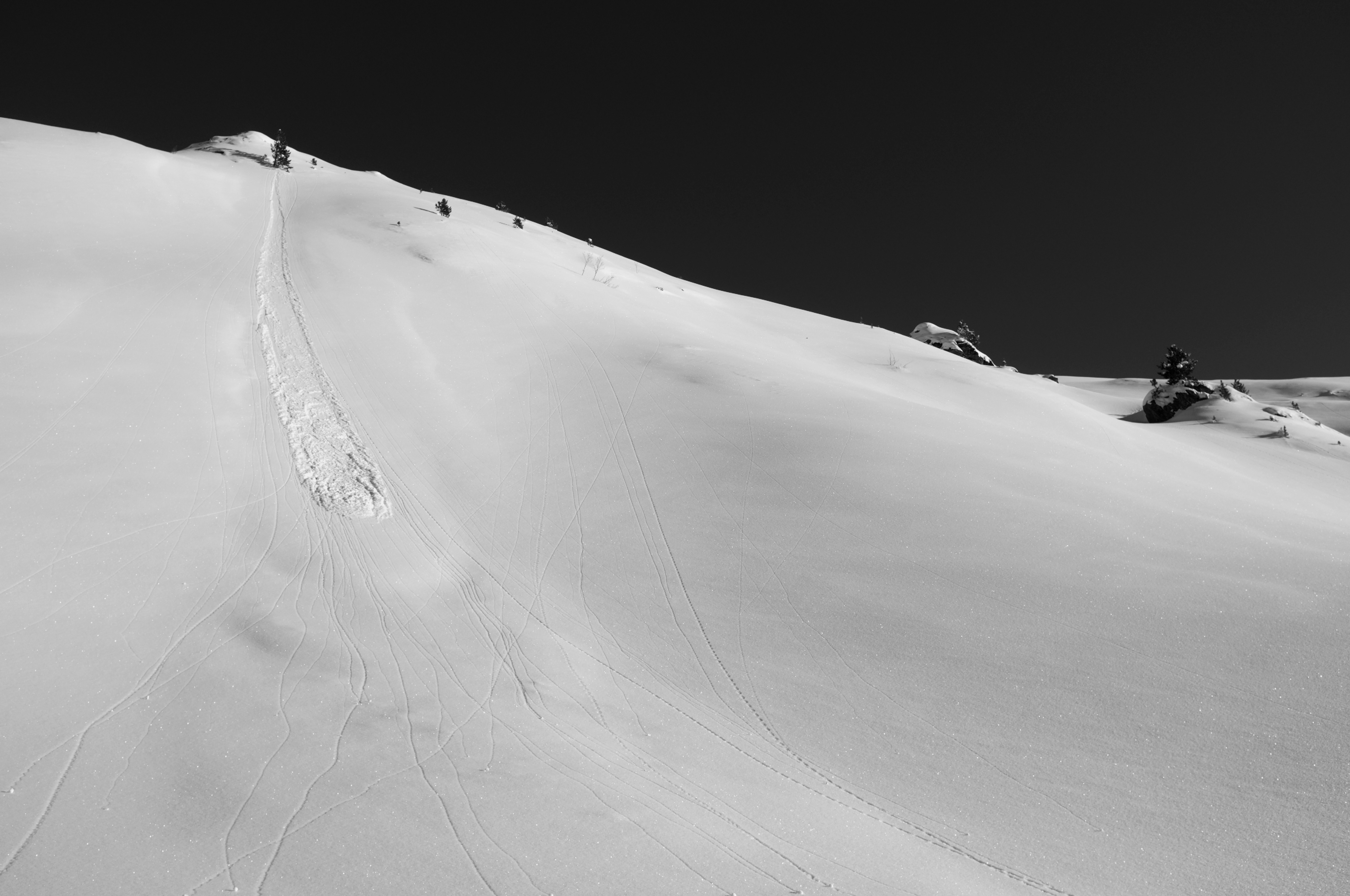 Loose snow avalanche near the Sidanjoch in Zillertaler Alps, obviosly triggered by falling snow from a tree into steep terrain